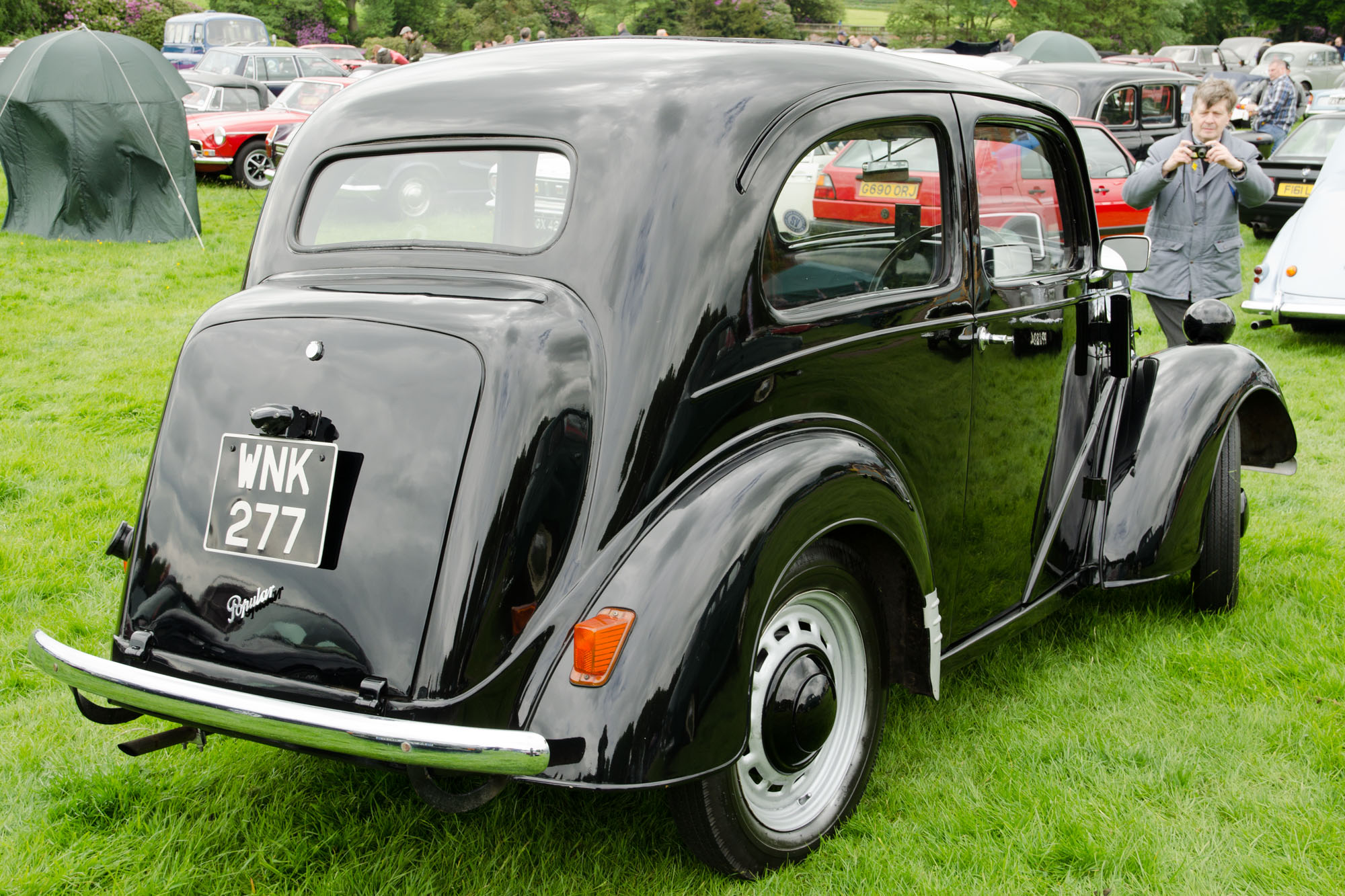 Capesthorne Hall Classic Car Show 25/05/2014